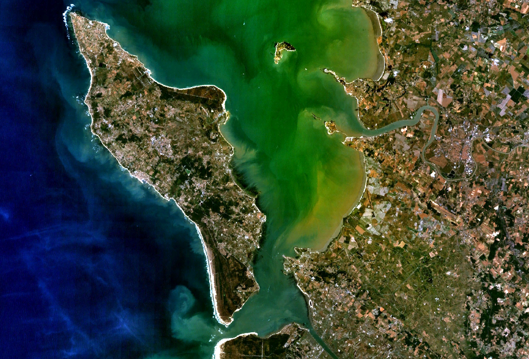 Île d'Oleron. Satellite view.